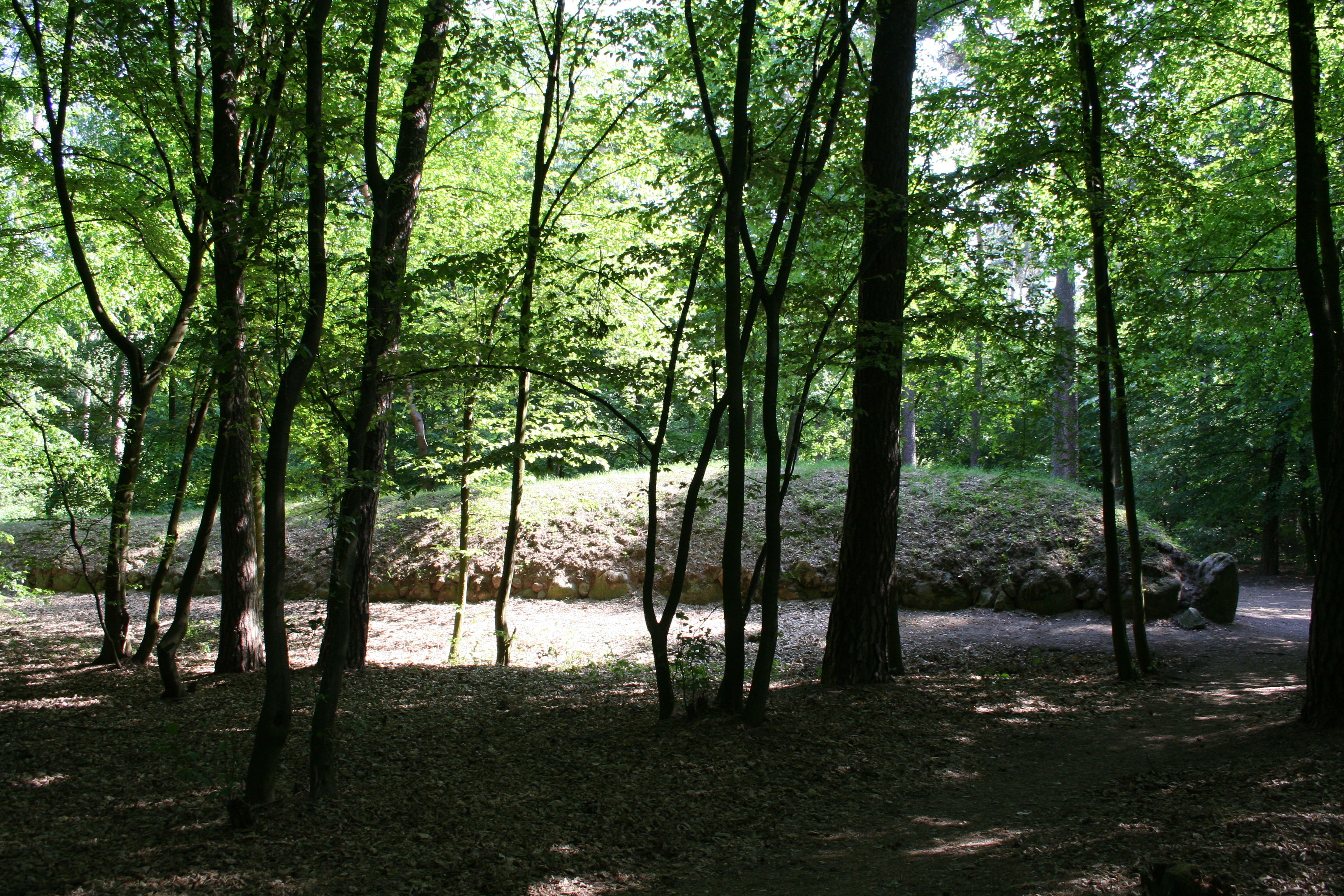 Earthen Long Barrow Wietrzychowice 1